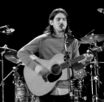 Conor Oberst in Minneapolis, Minnesota 2008